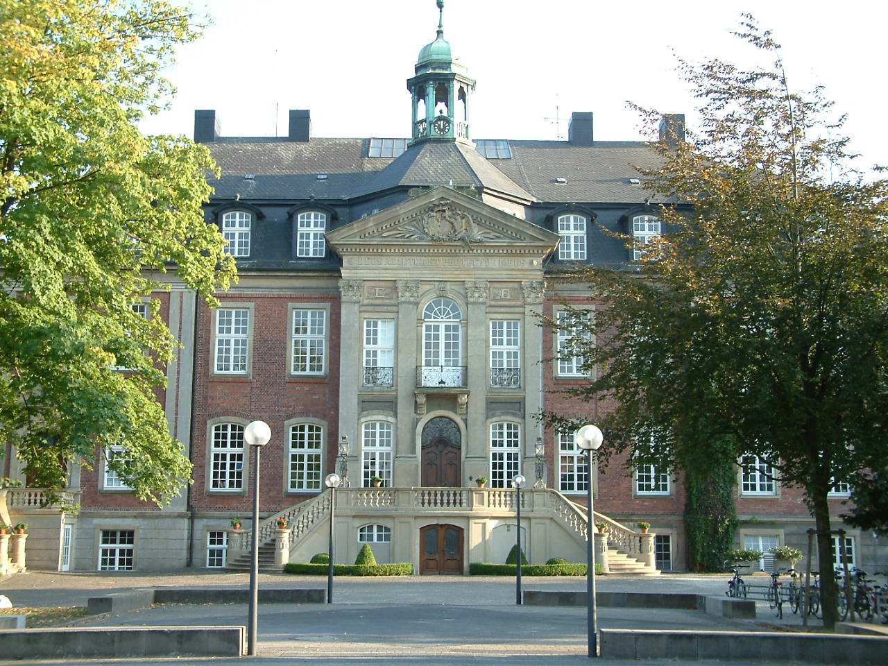 Front of the current Loburg Castle, near Ostbevern, Münsterland, Warendorf district, North Rhine-Westphalia, Germany. Since the 20th century this has been the home of the Gymnasium und Collegium Johanneum, a Catholic boarding high school.